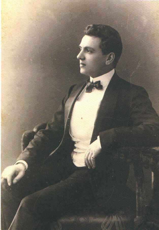 Portrait of Ernest Beaux